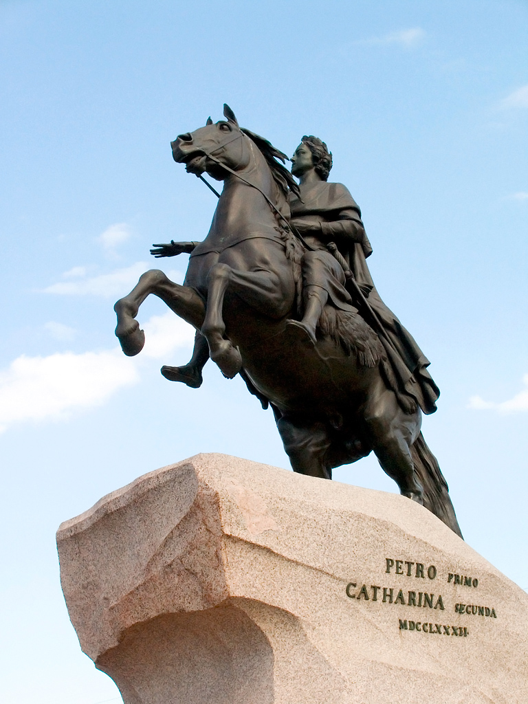 Bronze Horseman (Peter the Great) in Sankt Petersburg, by Etienne-Maurice Falconet